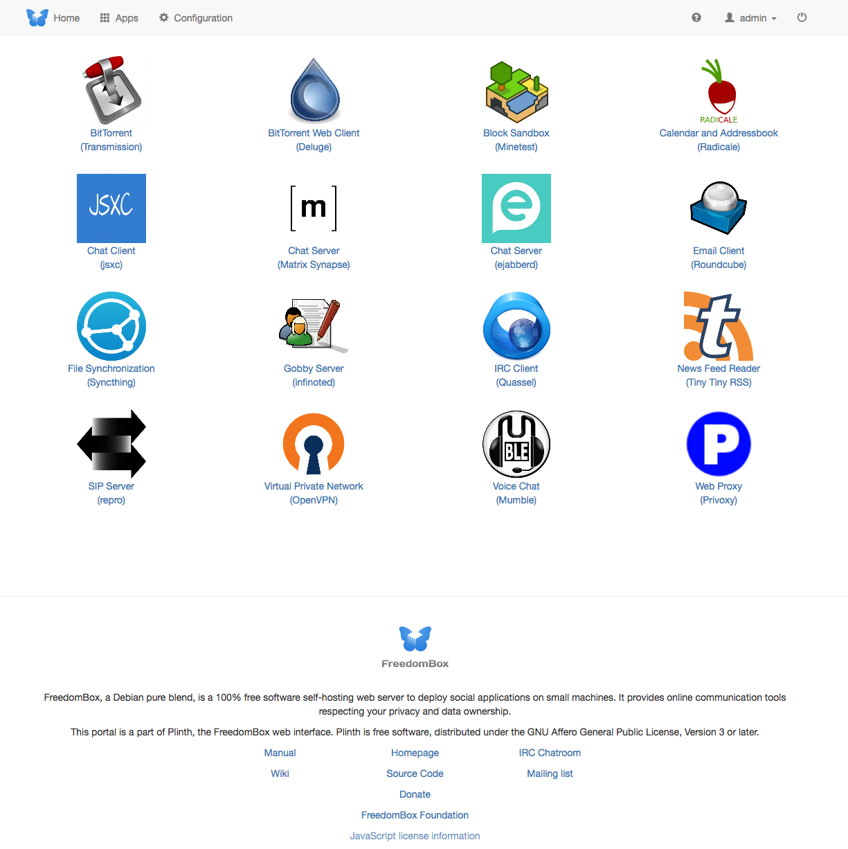 This image shows the front page of the FreedomBox web UI with most of the applications installed.